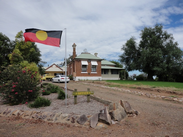 Cootamundra Domestic Training Home for Aboriginal Girls: Existing driveway and entry showing western wing.